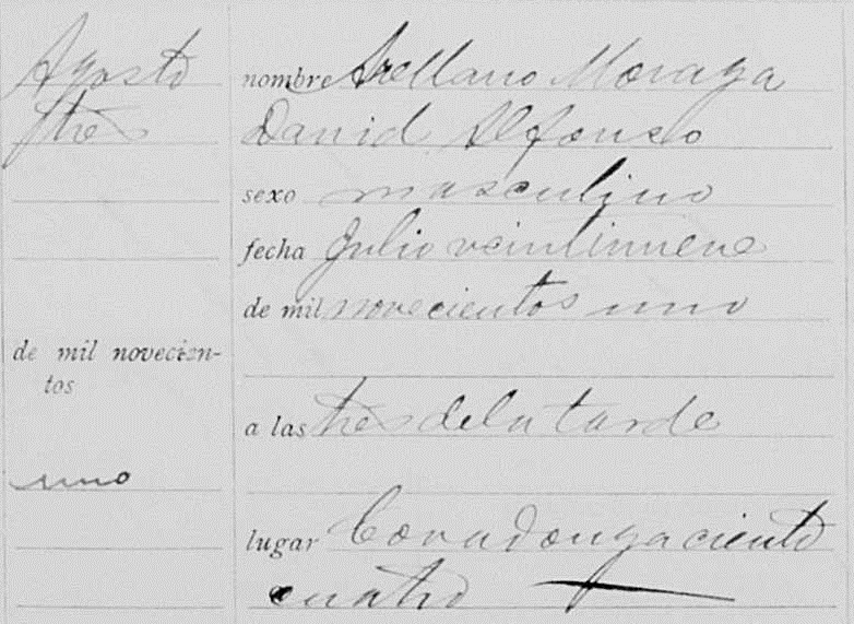 Birth record of David Arellano.